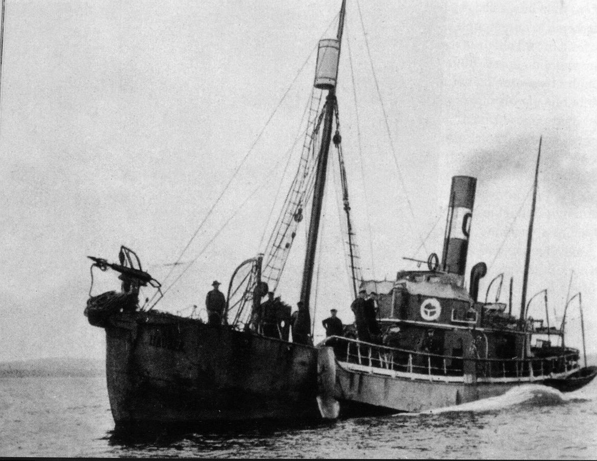 small steamship with harpoon canon from Sept-Îles (Quebec), about 1900